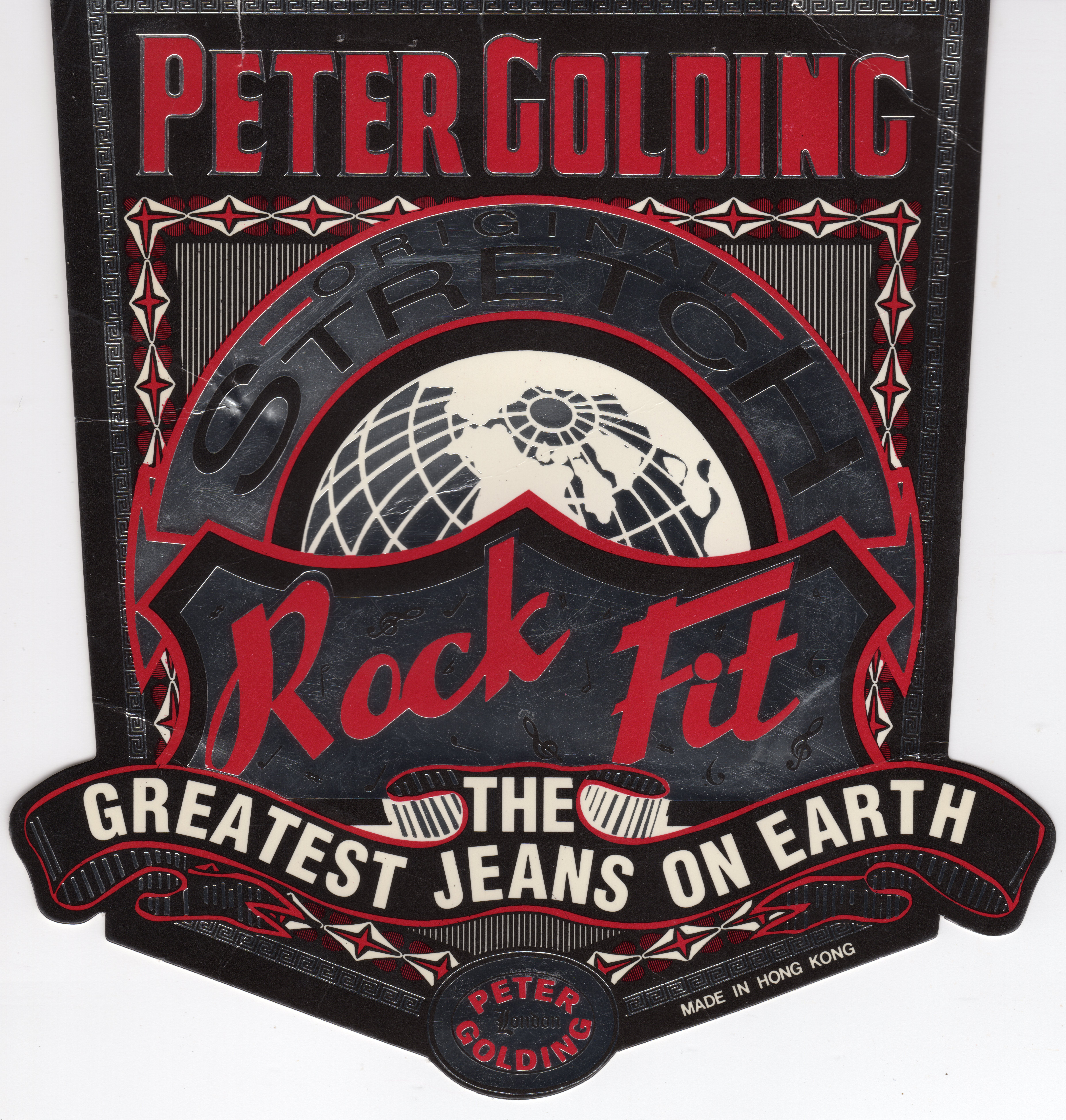 Jeans Back Pocket Ticket